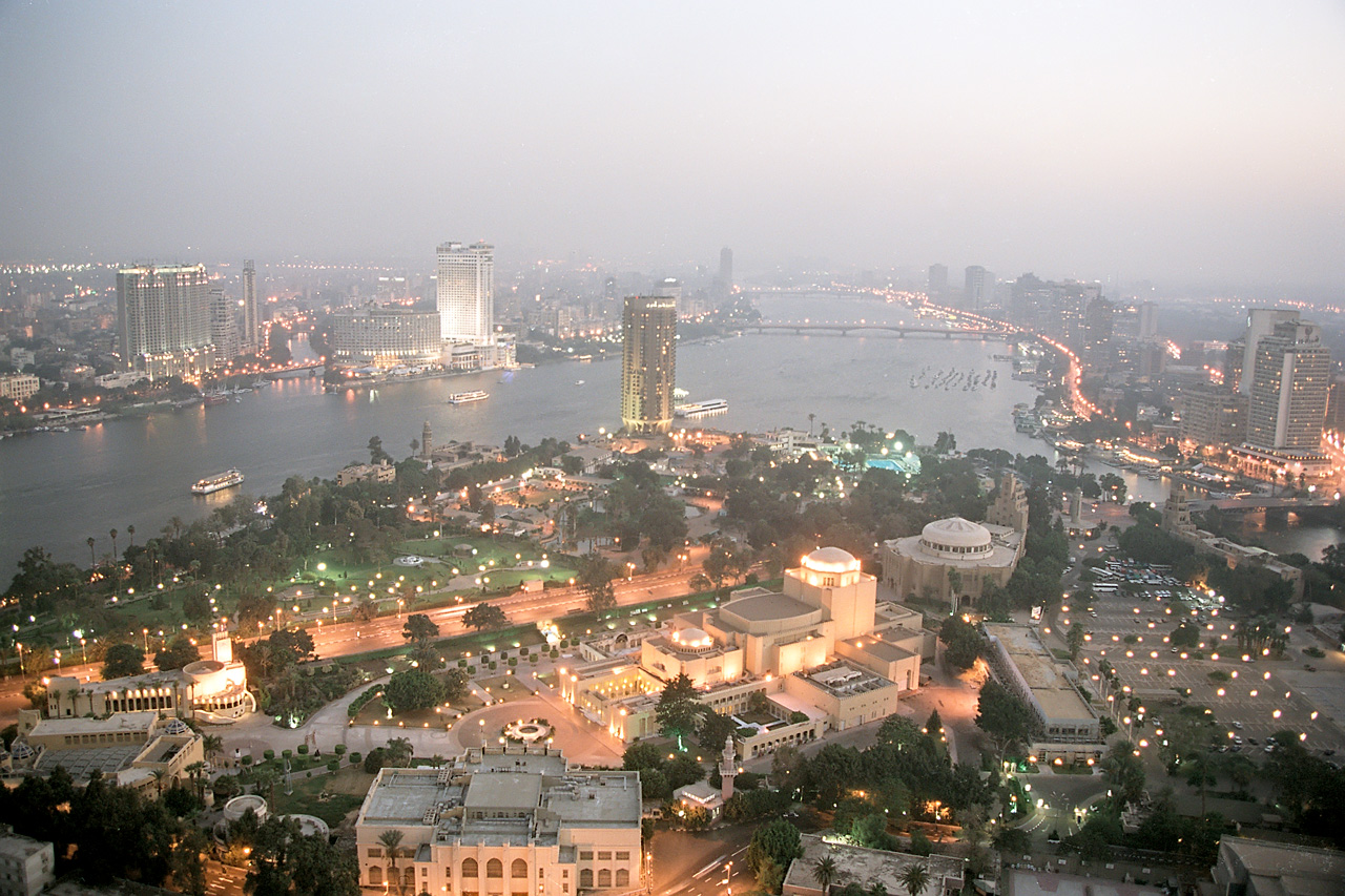 An evening view from the Cairo Tower towards south, of Cairo, Egypt.